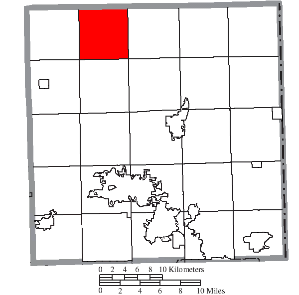 Map of the municipal and township boundaries of Trumbull County, Ohio, United States, as of the 2000 census, with the location of Bloomfield Township highlighted. Township borders are shown only in unincorporated areas in order to differentiate incorporated and unincorporated areas more clearly.